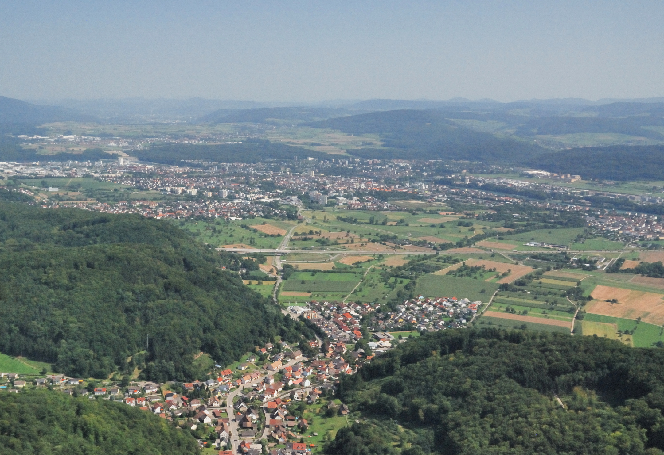 aerial view of Rheinfelden